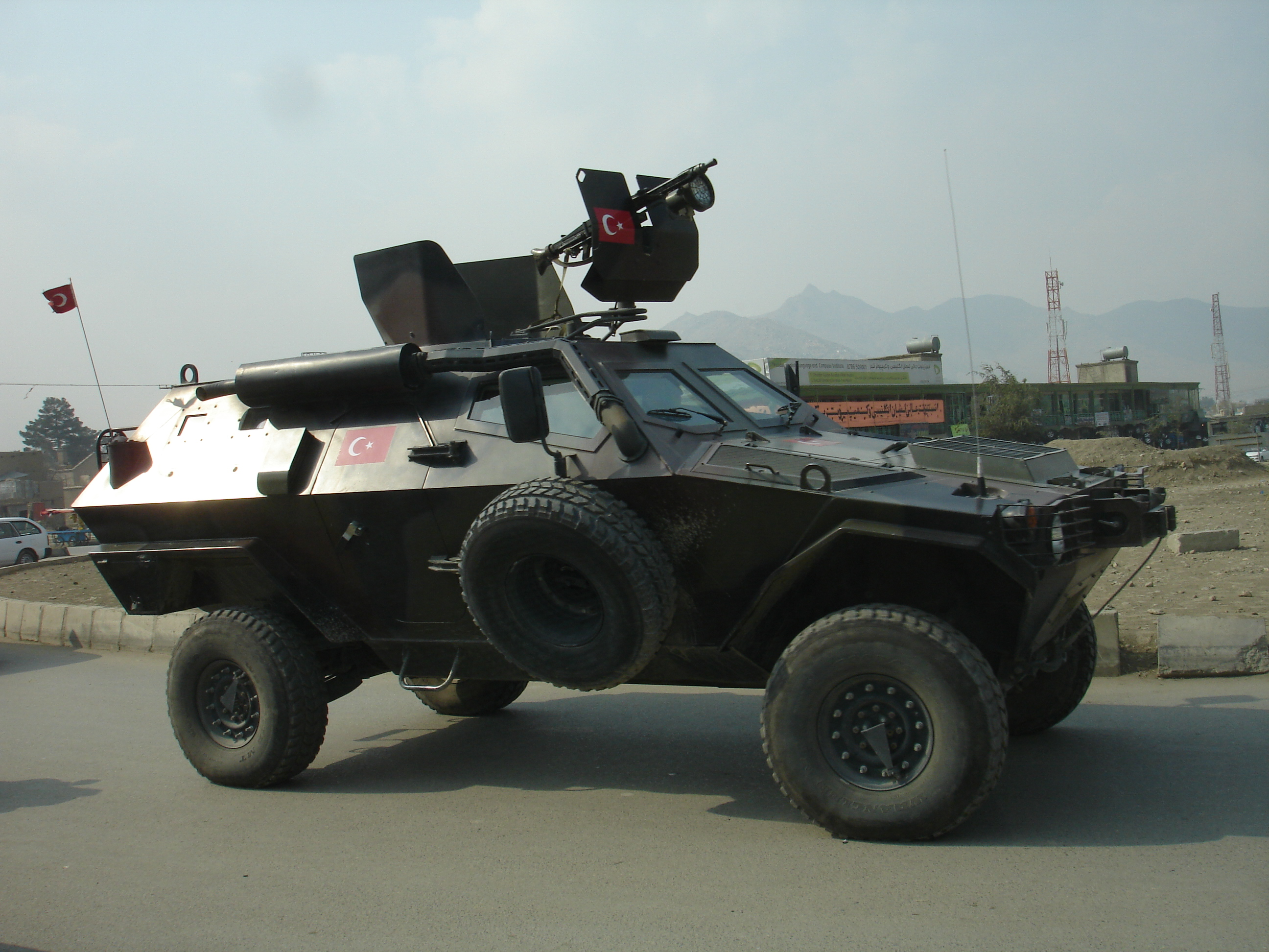 Otokar Cobra in Kabul